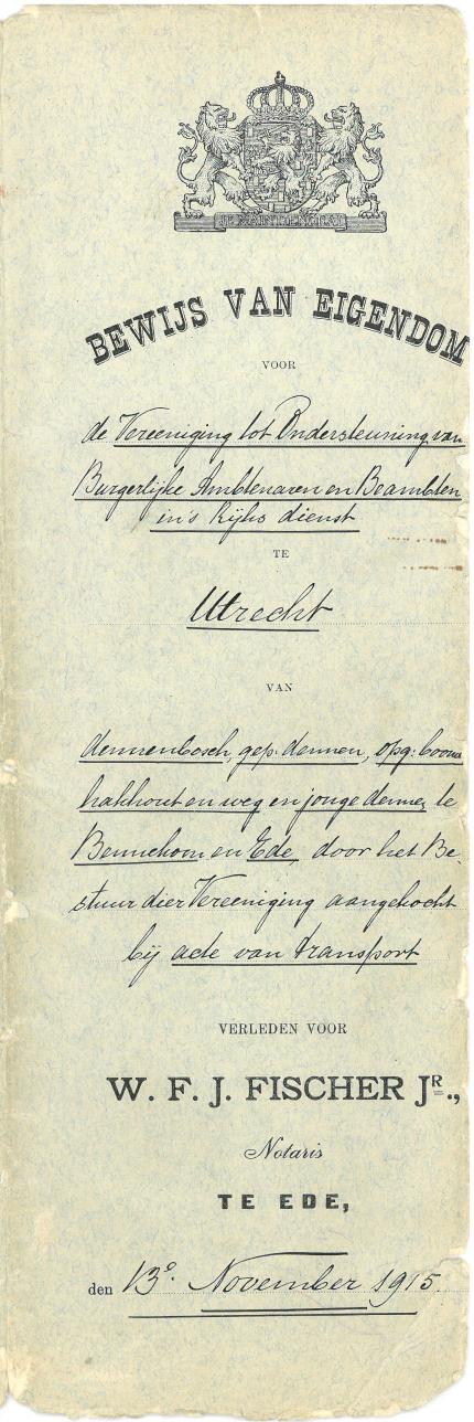 Proof of ownership Hora 1915